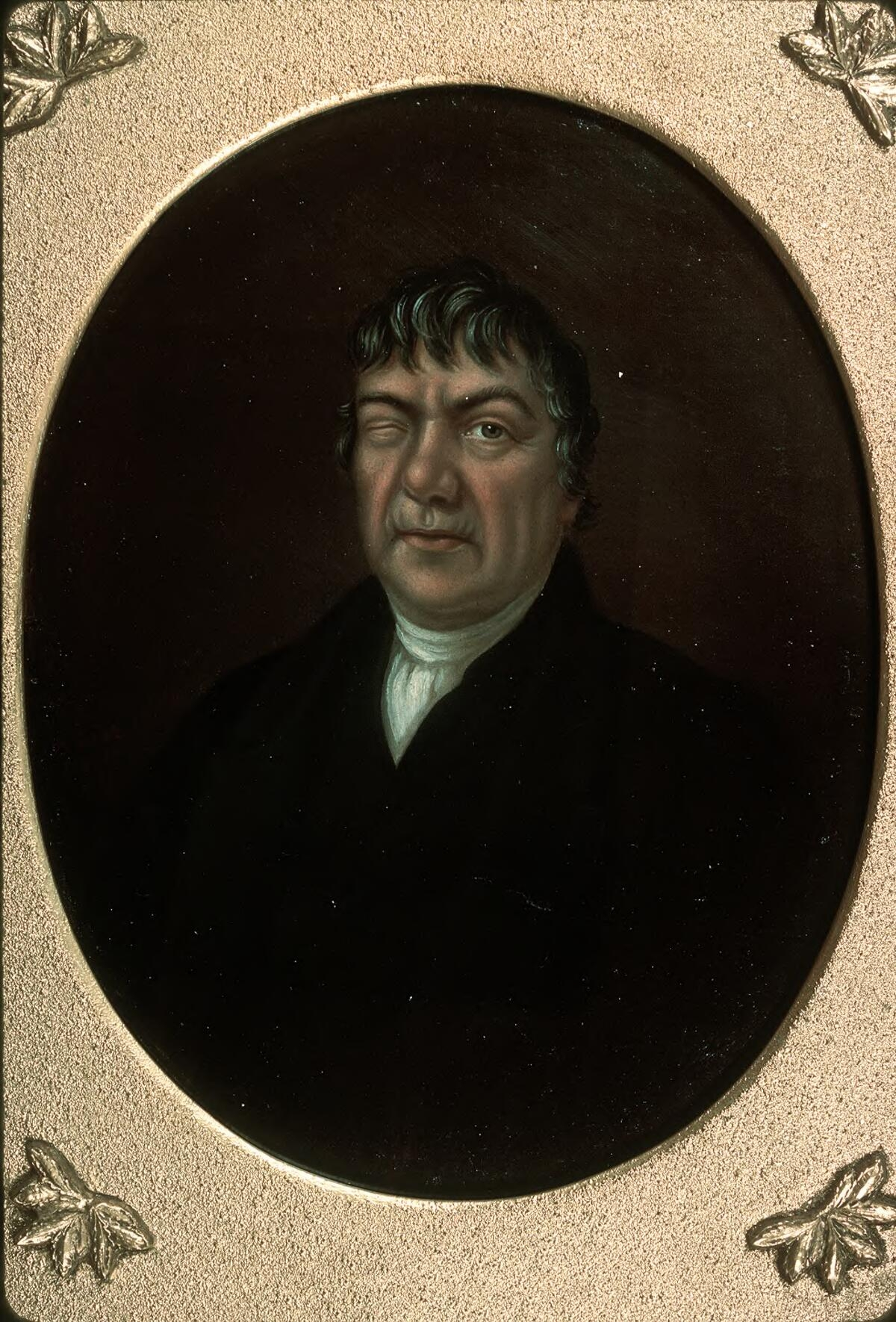 A painting from the Framed Works of Art collection at the National Library of wales.